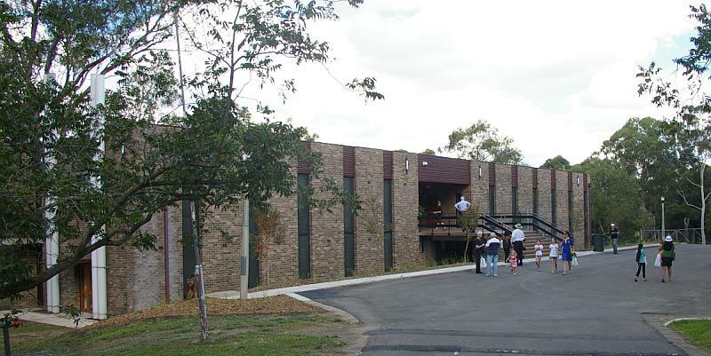 The Dept of Agriculture office block erected adjacent to Melrose in 1971. As of 2010 it is occupied as offices by Blacktown City Council and various community organsiations.